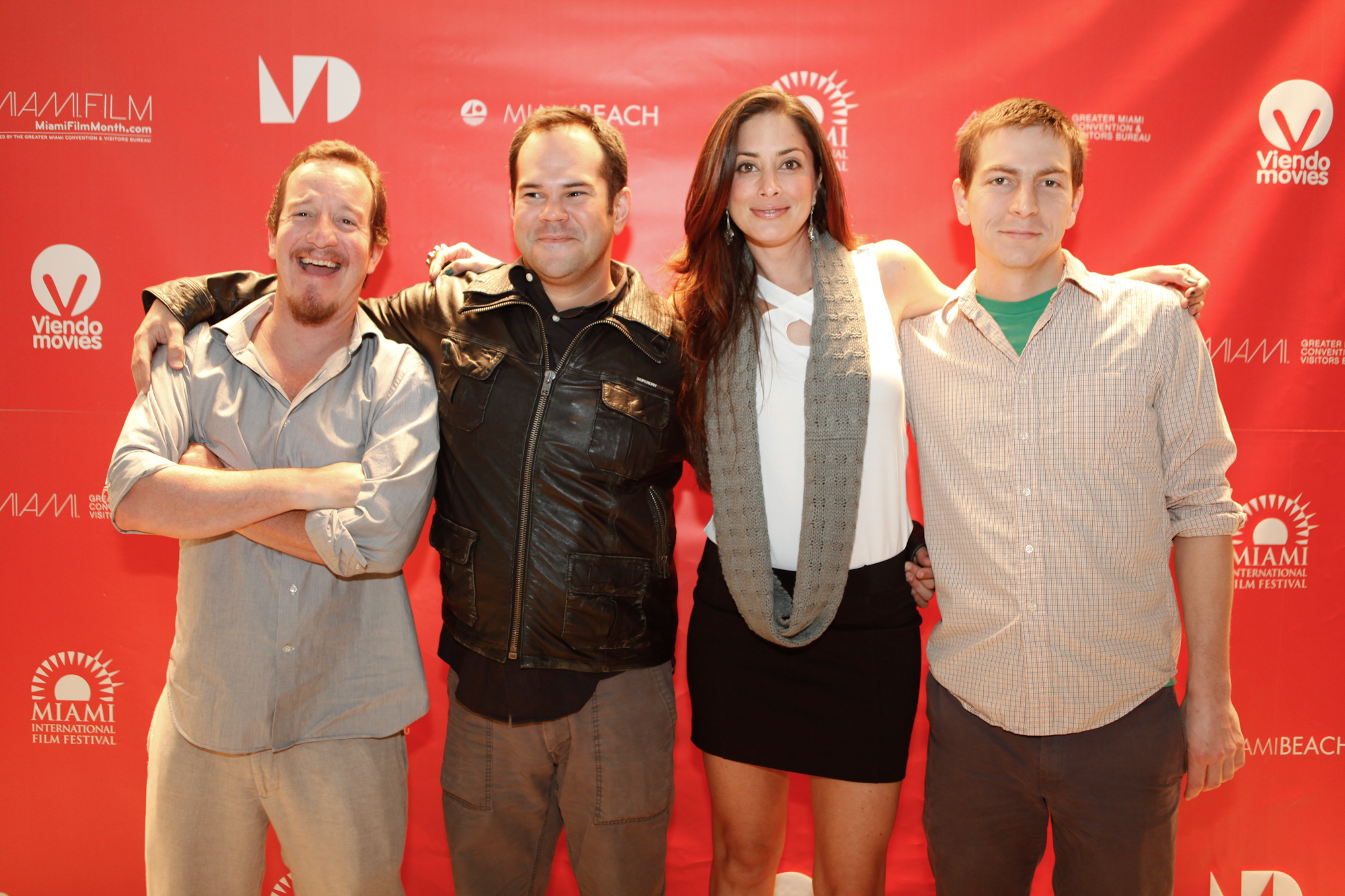 Actor Andres Crespo, director Javier Andrade, actress Leovana Orlandini and DOP Chris Teague at the 2012 Miami International Film Festival presentation of "The Porcelain Horse" at Regal Cinemas South Beach